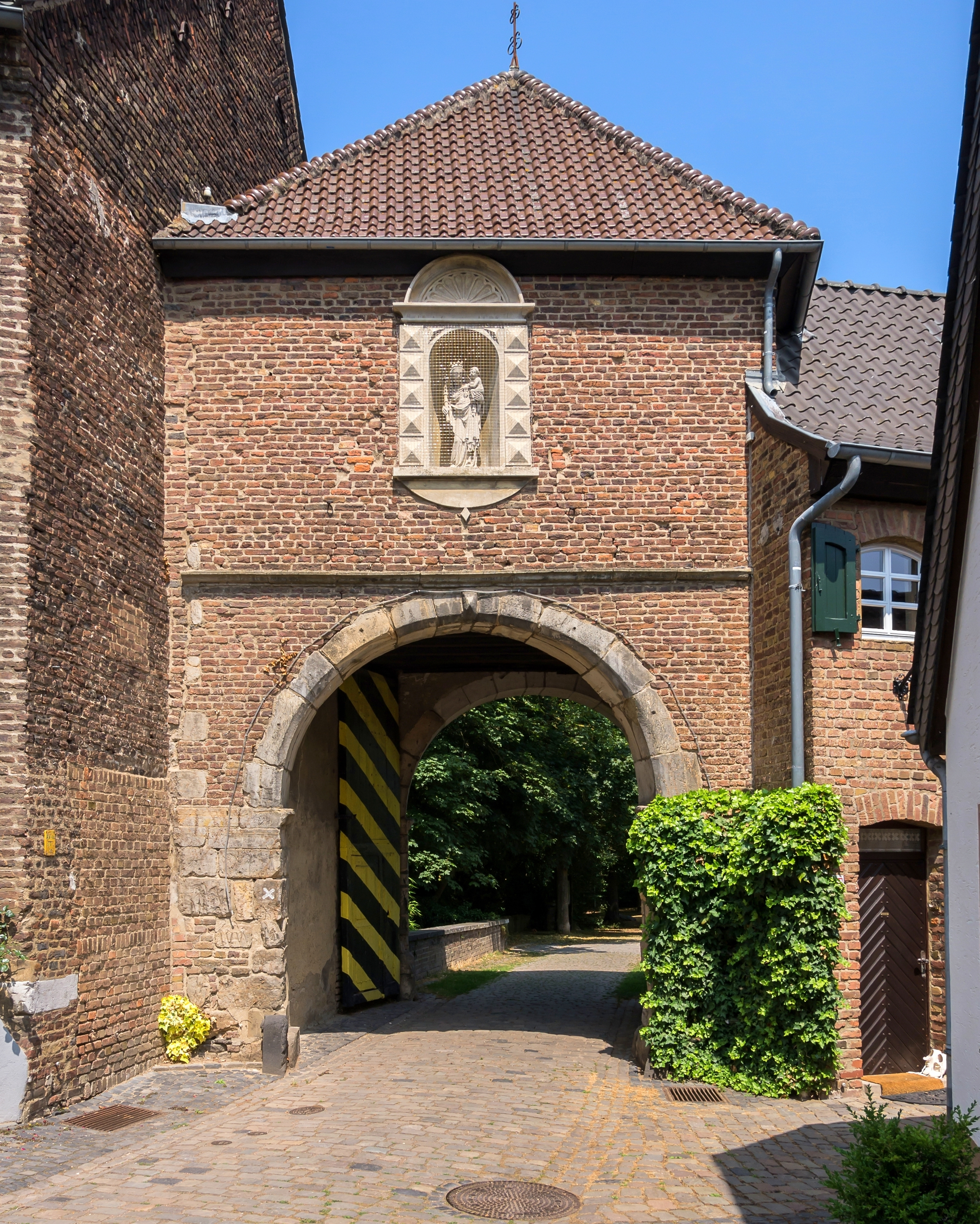 Kaster - Hauptstraße 24 Erfttor, Alt-KasterThis is a photograph of an architectural monument., no. 96